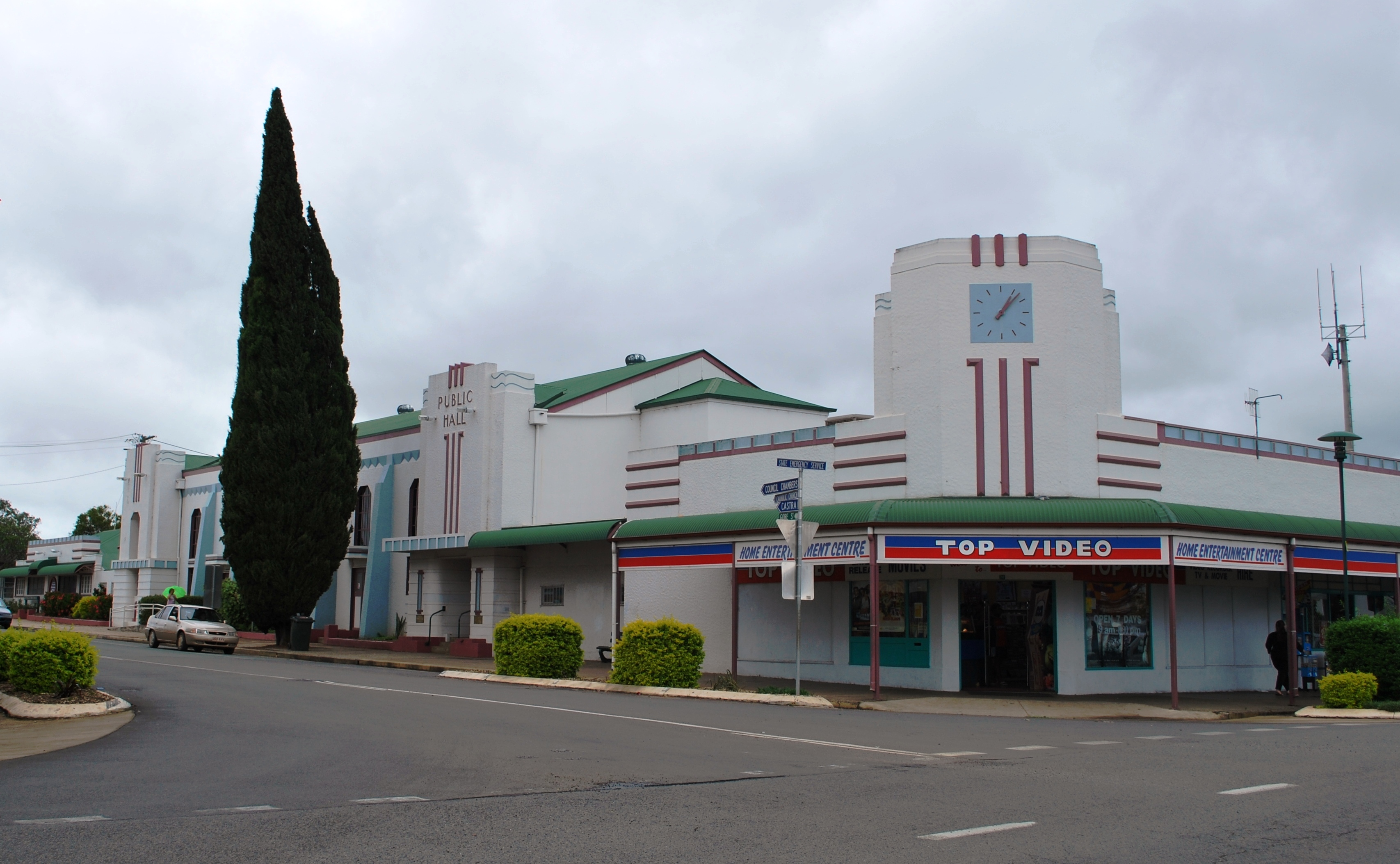 Public hall at Murgon, Queensland